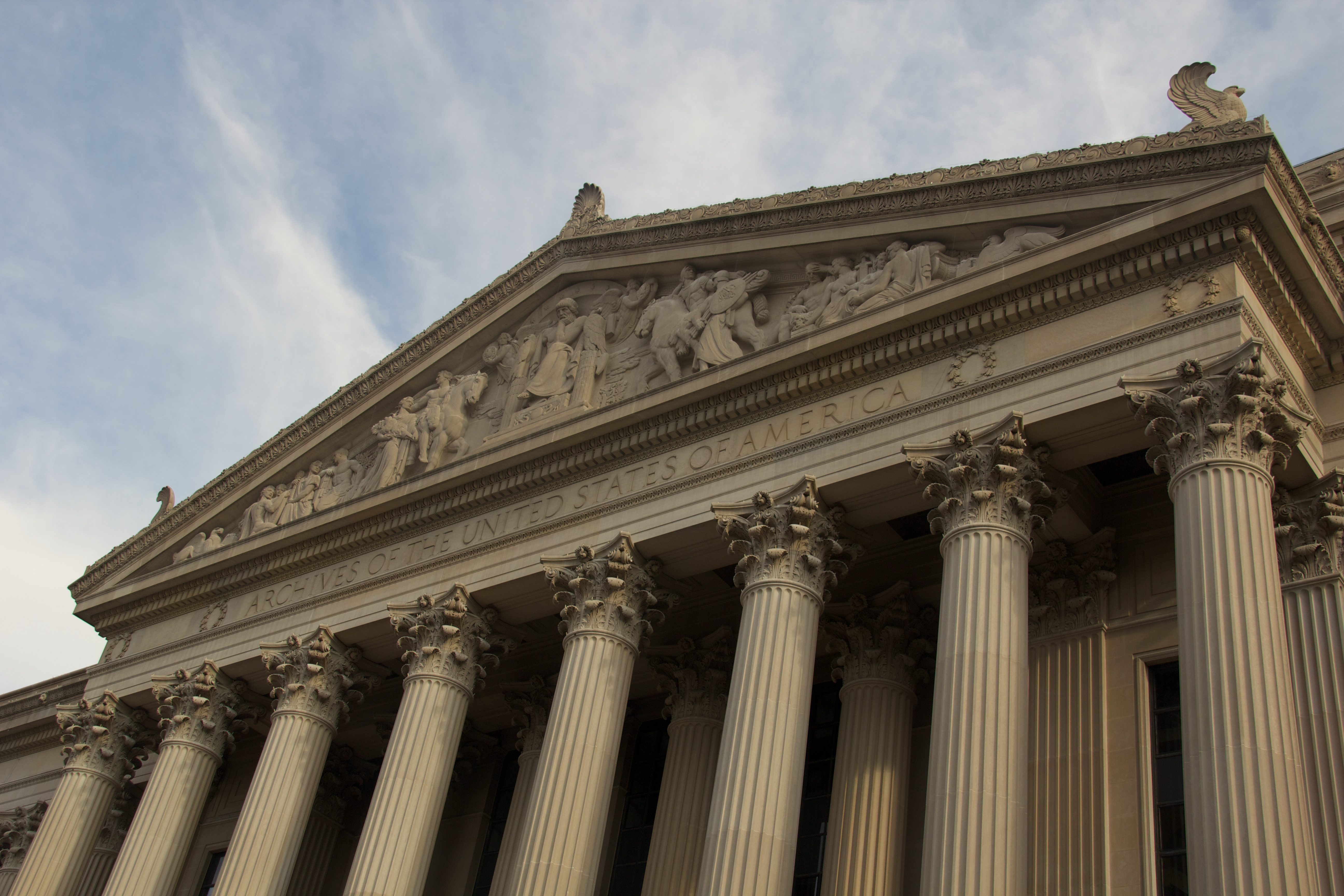 Archives of the United States of America. Washington, D.C.